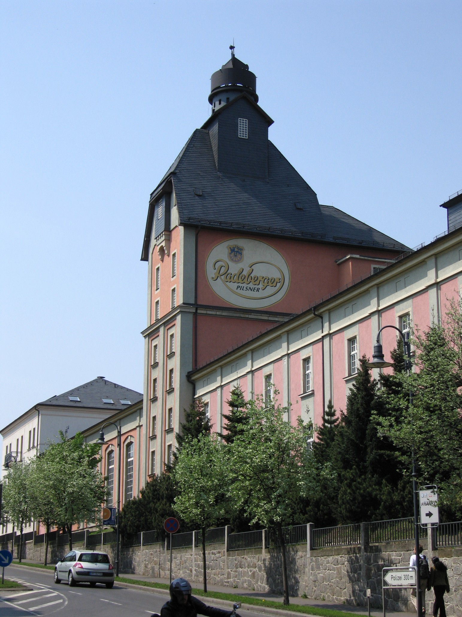 Radeberger Brewery - oast house, Radeberg, Germany